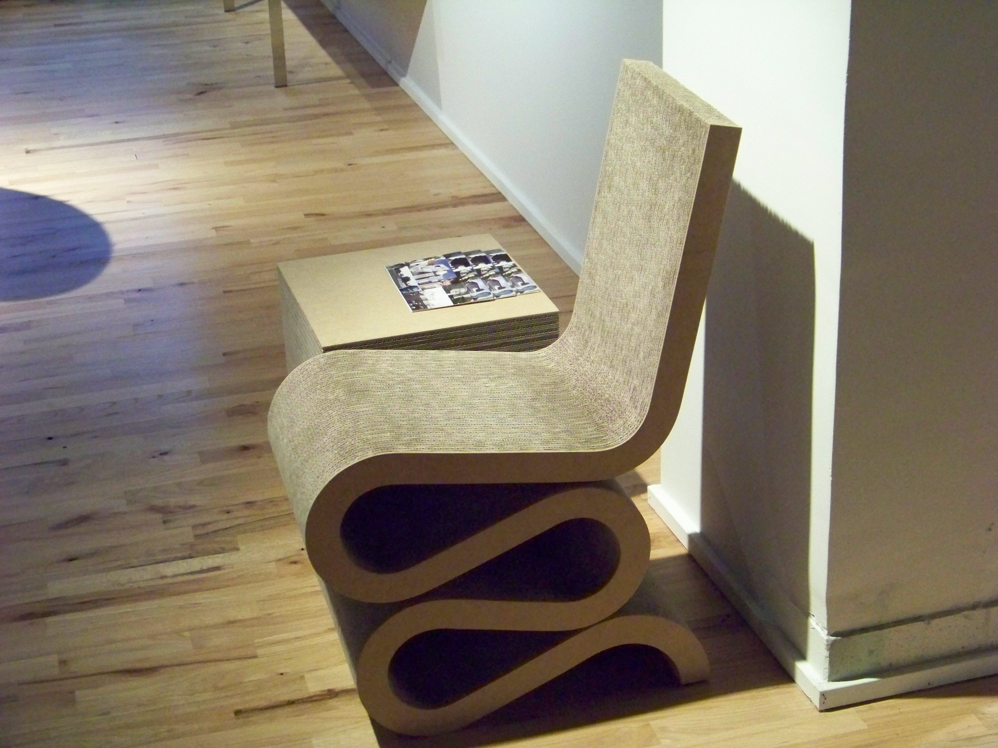 Frank Gehry: Easy Edges Wiggle Side Chair (1972) corrugaed fiberboard